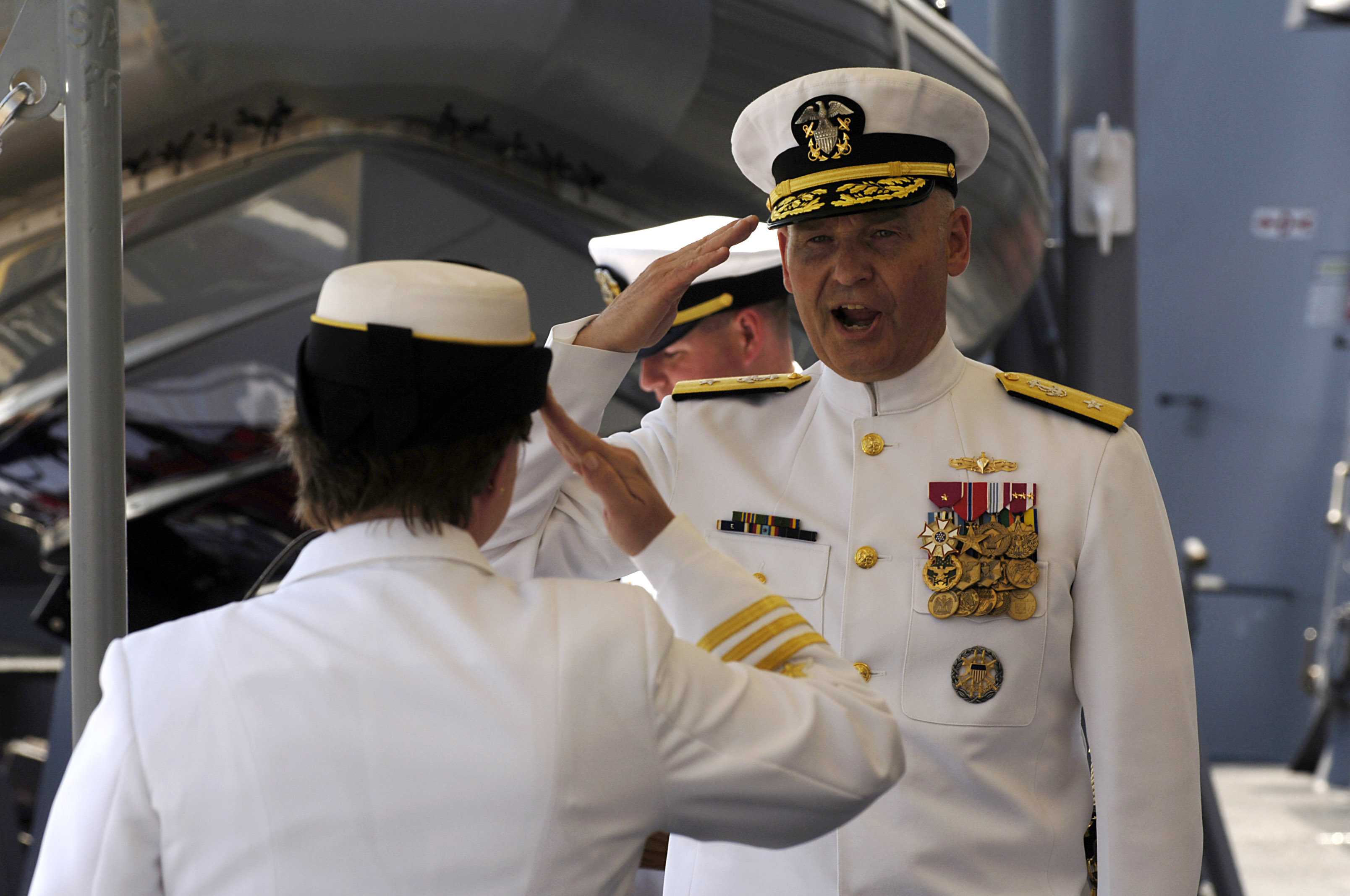 Mayport, Fla. (June 10, 2006) - Cmdr. Deidre L. McLay salutes Deputy Director, Surface Warfare, Rear Adm. Mark H. Buzby, assuming command of the newest Arleigh Burke class guided-missile destroyer USS Farragut (DDG 99). The ship's name honors Adm. David Glasgow Farragut. In 1864, Farragut rallied his men to victory, shouting: "Damn the torpedoes! Full speed ahead!” Farragut led his naval forces on to win the Battle of Mobile Bay. U.S. Navy photo by Photographer's Mate 1st Class Shawn P. Eklund (RELEASED)